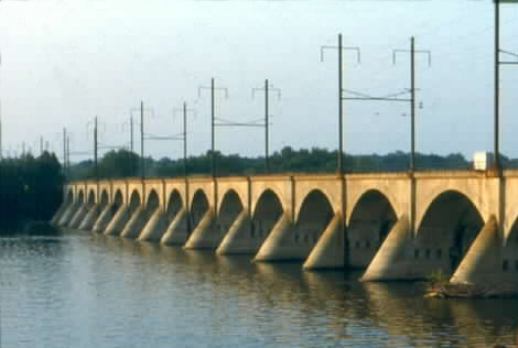 CVRR Bridge